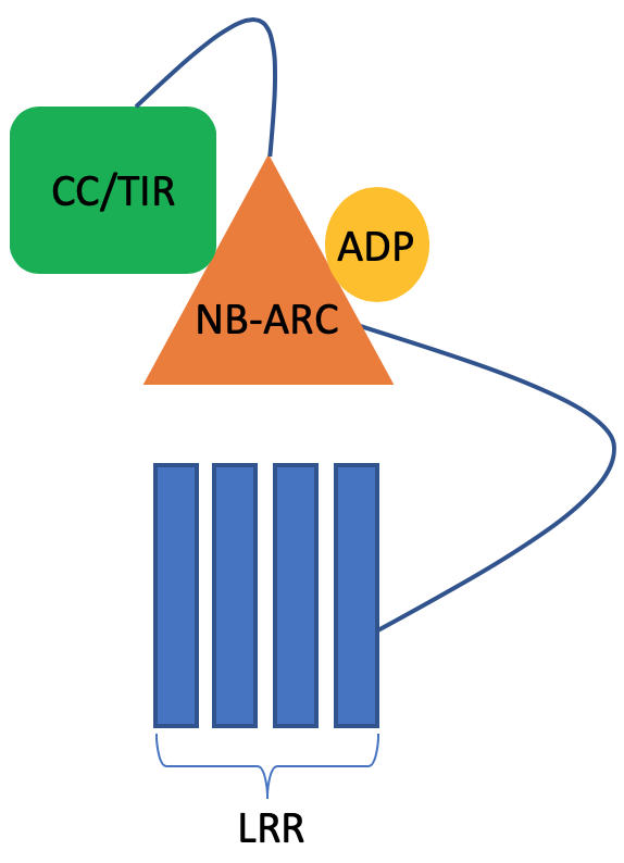 This image represents a typical structure of an NLR protein. Notice the NB-ARC domain being sandwiched in between the LRR and CC/TIR domains.